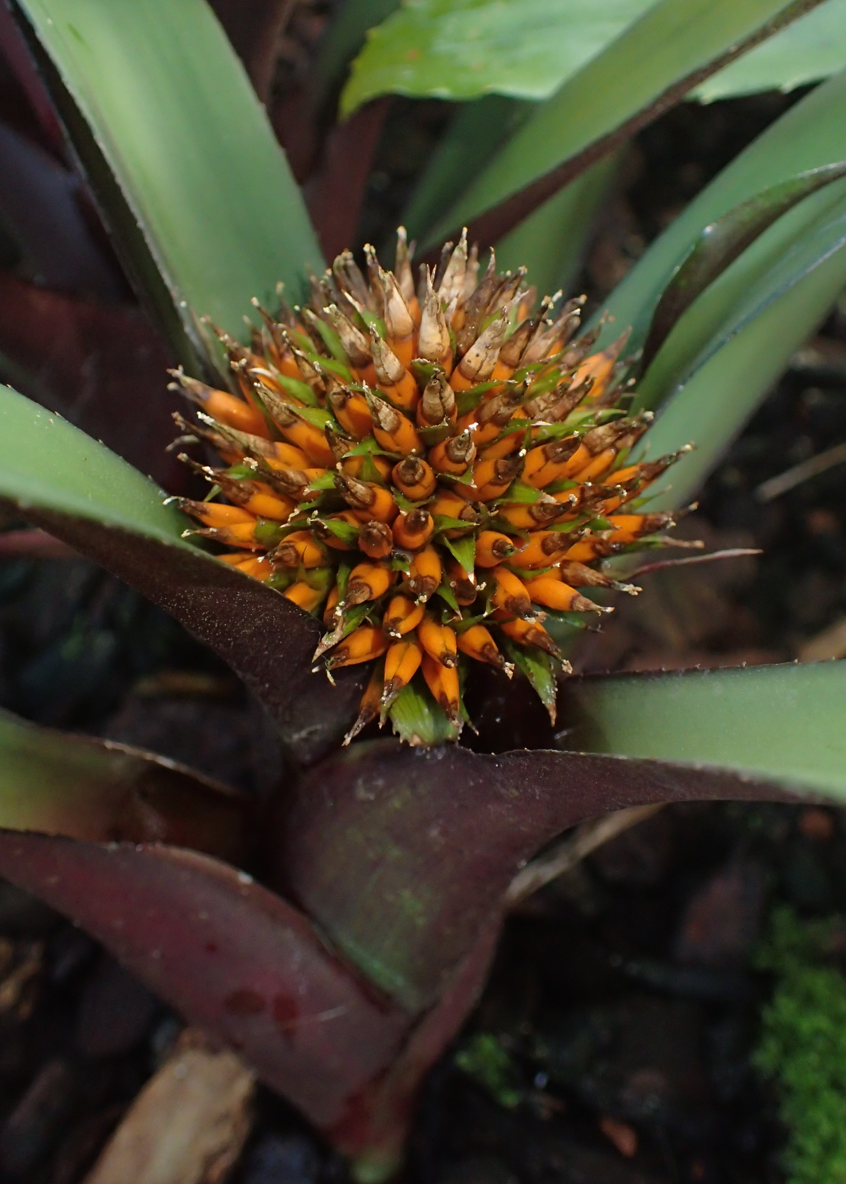 Nidularium burchellii in the Botanischer Garten, Berlin-Dahlem